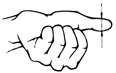 Chinese Cun, variant 2